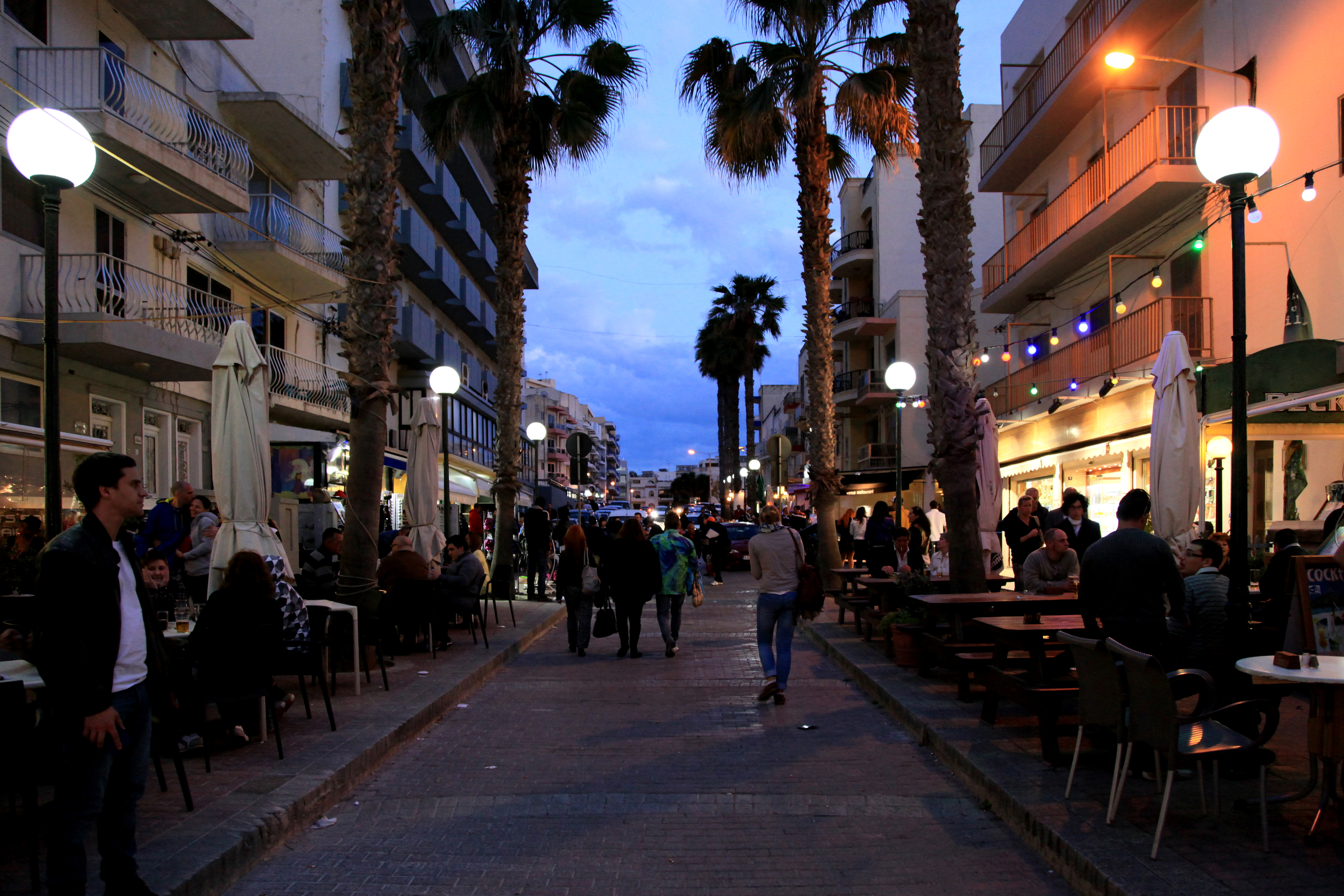 Misraħ il-Bajja in St. Paul's Bay, Malta